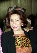 Picture in a public event of Mexican diplomat Gloiria Lopez Morales